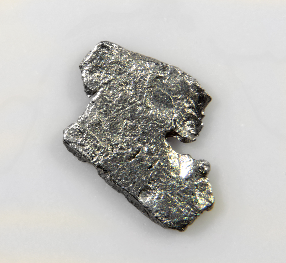 Locality: Nizhnii Tagil, Sverdlovskaya Oblast, Urals Region, Russian Federation Size: 0.24 × 0.2 × 0.1 cm Description: This is a small grain of native ruthenium with composition (Ru0.51,Os0.25,Ir0.24) from PGM concentrates of Neiva river sands. Analysis has been carried out with JEOL FE-SEM. Harris & Cabri (1973) indicated in the diagram attached that this composition must be related to rutheniridosmine, but according to 50% rule accepted by IMA, it is Ruthenium now.